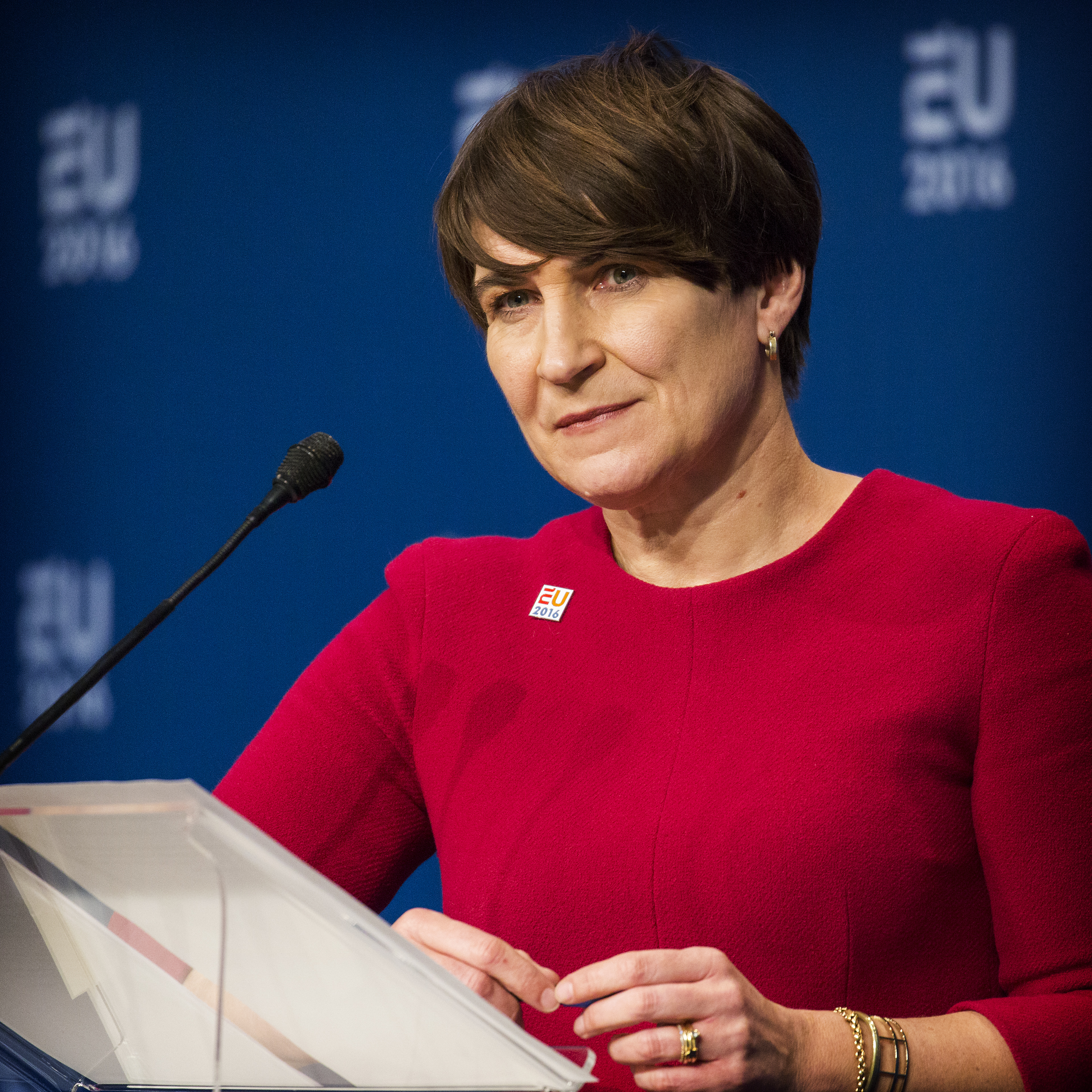 2 februari 2016 - Amsterdam / Februari 2nd 2016, Amsterdam. Persconferentie EU commissaris Cecilia Malmstrom (Handel) en minister Lilianne Ploumen. Persconference EU commissaris Cecilia Malmstrom (Trade) and minister Lilianne Ploumen. Foto: Rijksoverheid/Valerie Kuypers – Photograph: Dutch Government/Valerie Kuypers